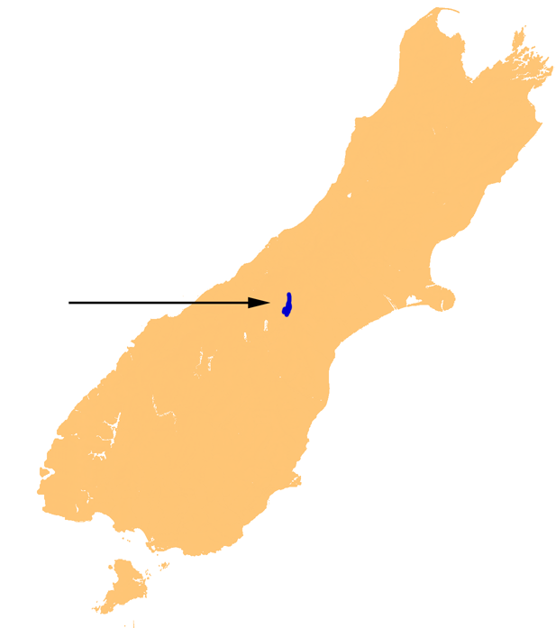 Location map of Lake Tekapo, New Zealand